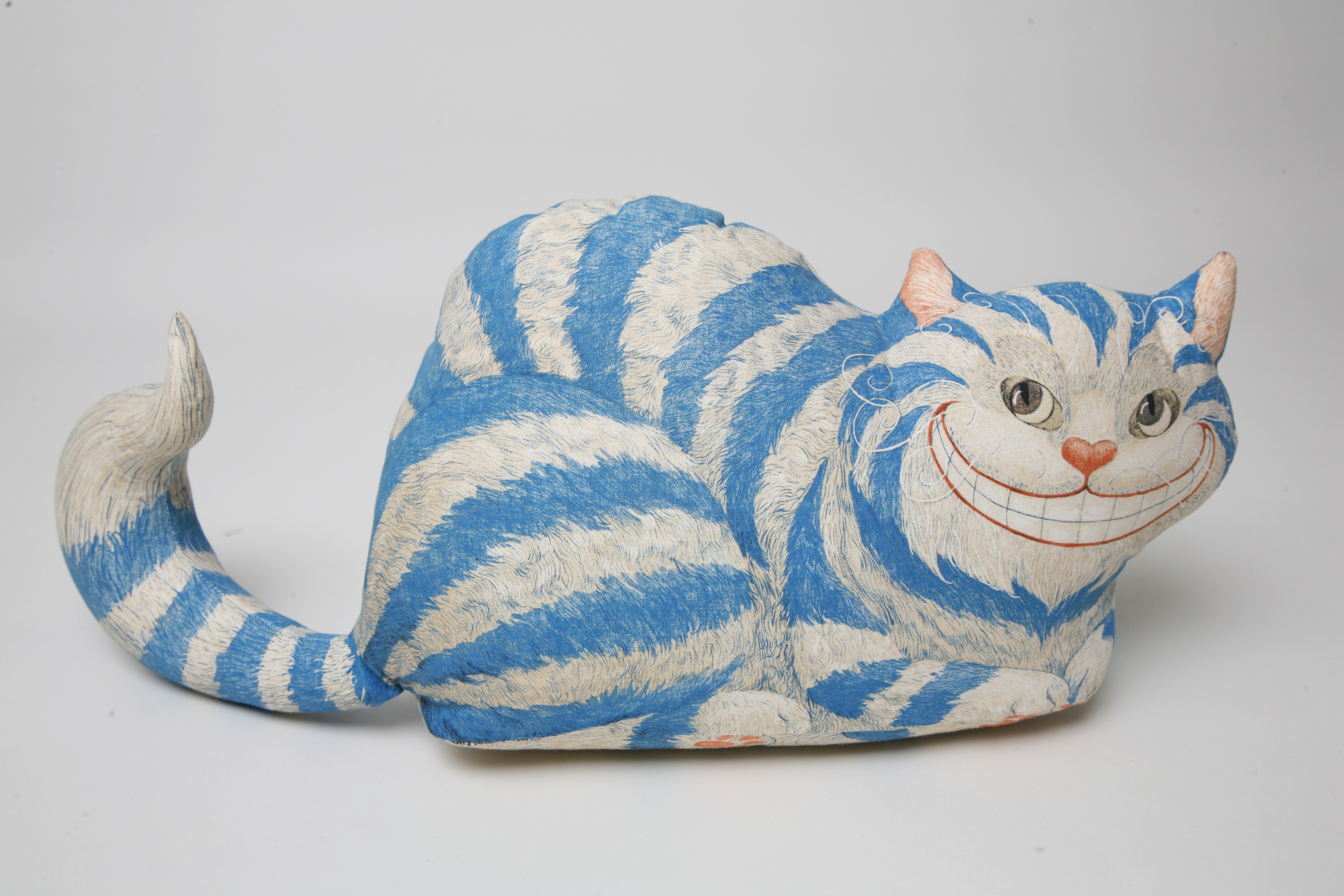 A stuffed toy Cheshire cat in the permanent collection of The Children’s Museum of Indianapolis.